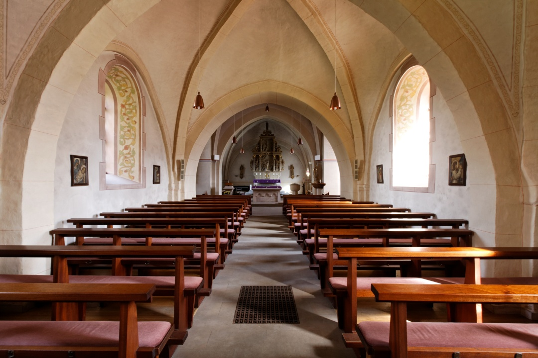 Inside the St. Mary Church, Sevelten, Germany